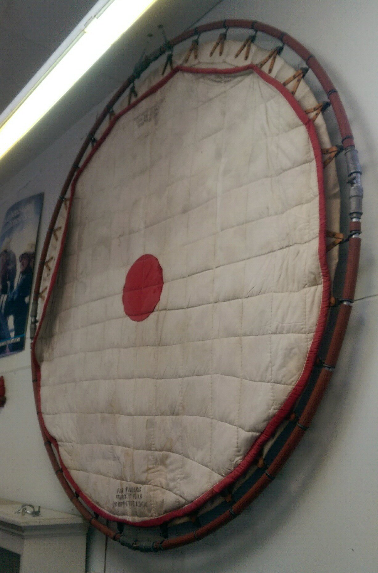 A Browder life net on display at the Napa Firefighters Museum, in Napa, California. Photo by Jim Heaphy.